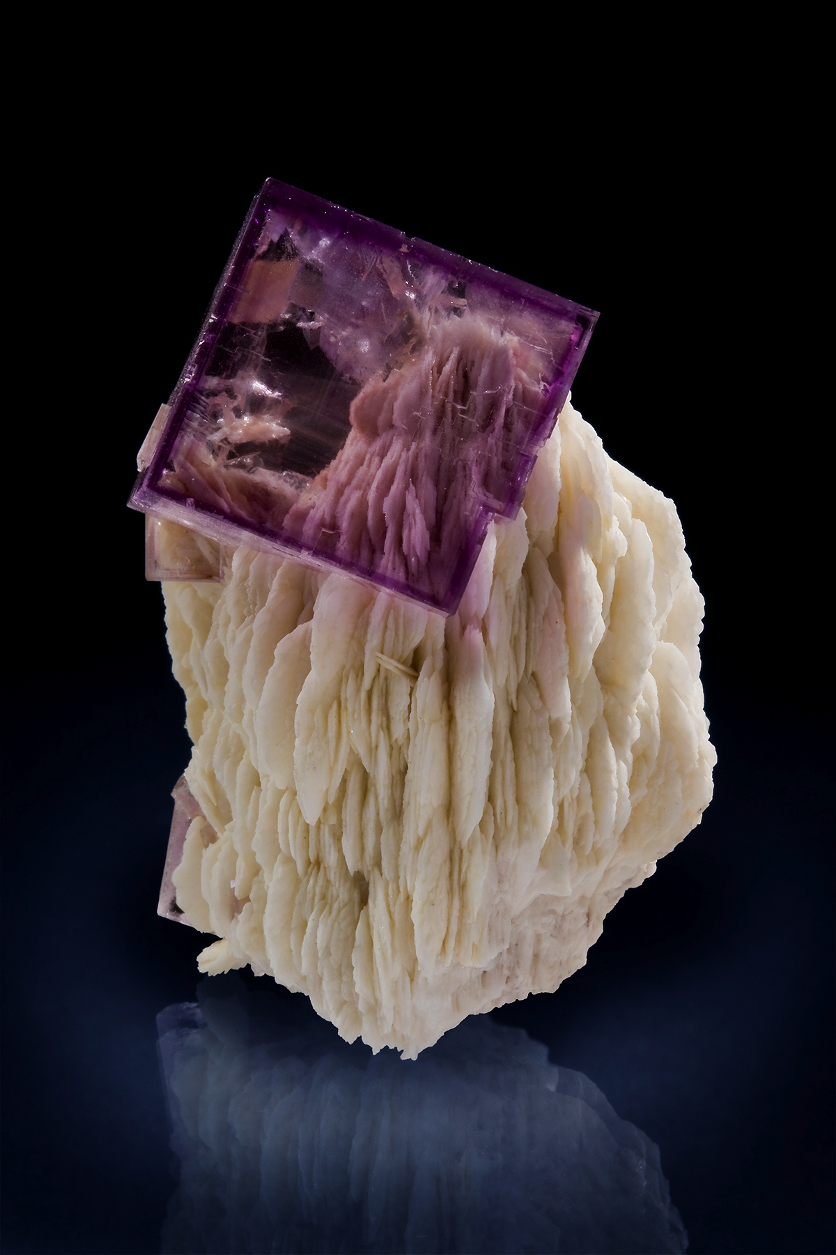 Baryte, Fluorite Locality: Berbes Mine, Berbes Mining area, Ribadesella, Asturias, Spain (Locality at ) Size: miniature, 5.5 x 4 x 3 cm Fluorite on Barite This specimen is to me one of the most elegant fluorites I have ever handled. It has so much contrast: of the sharp cubic form so unlikely to be perched atop curving barites; of the stunning purple color set against a chalky white pedestal; and of the clarity and gemminess contrasted to the opaque barites on which this crystal sits. The piece is a very large miniature at 5.5 cm, but if you tilted it back slightly for display it would meet "competition miniature" sizing. Properly perhaps, it is a small, small cabinet piece. The crystal is 2.2 cm by 2 cm on front, and extends at most 2 cm deep to the rear. The back face is contcted , but the fluorite and barite are pristine on the display face, the three other sides. The specimen was perhaps for 2 decades in the miniatures collection of ultra-picky collector (i mean that as a compliment), Steve Smale, known for his finicky taste for pure perfection when at all possible. He exchanged it long ago to another local collector in the Bay Area, Steve Smith, from whom I have recently obtained it. I LOVE the rock. I think the one sharp picture (Joe Budd photo) says it all. This piece is simple but complex at the same time, full of subtlety, and leaps out to me. It is, admittedly, probably the most expensive Berbes miniature on the planet, but then I paid a lot to pry it out of the collection it was in, and I really do value it so highly in my estimation of its quality and visual impact.